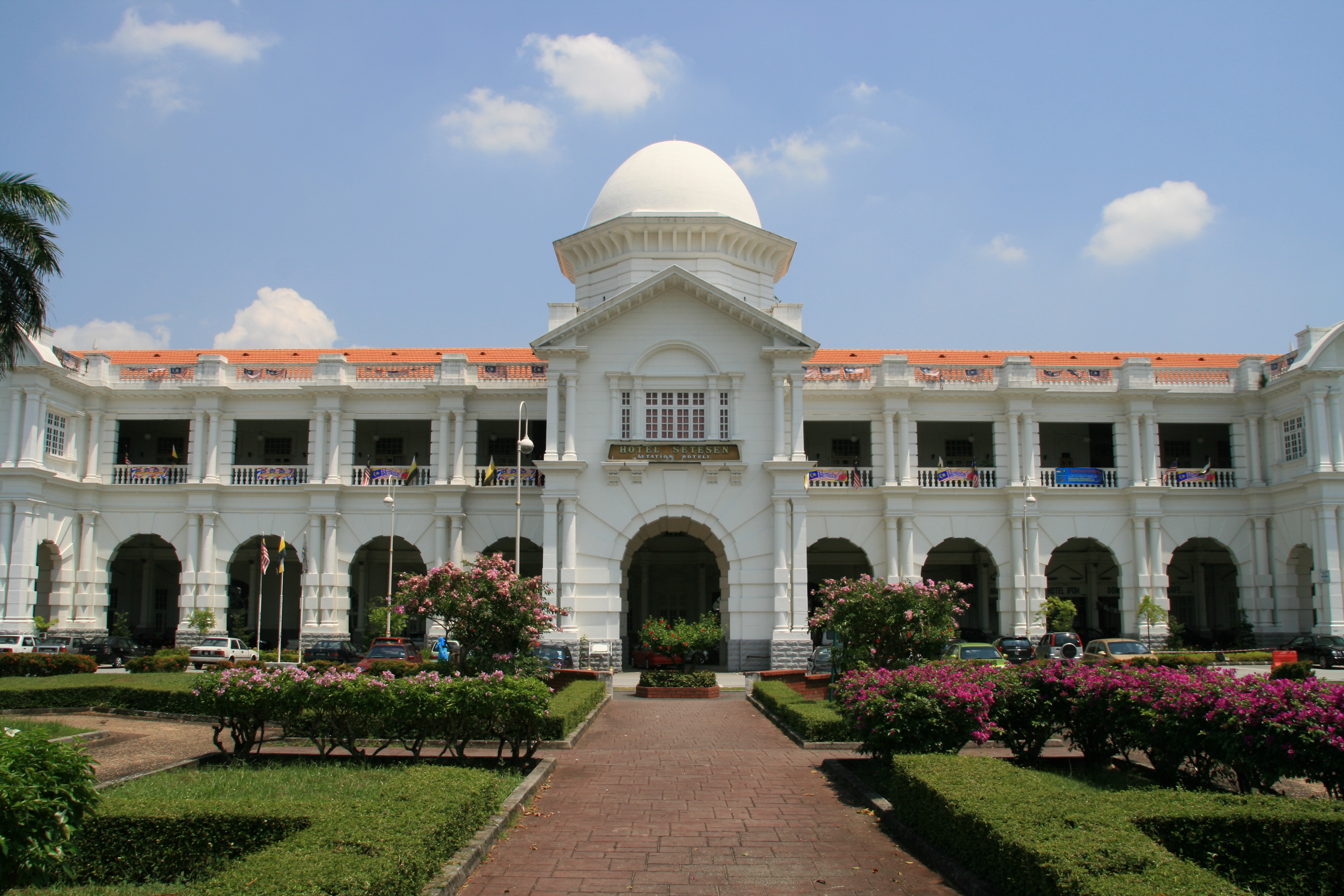 IMG_1754, Designed by Arthur Benison Hubback, it was first constructed and opened in 1935, making it the second concrete station to be constructed in the town. The building also houses the hotel called the Majestic Hotel. Affectionately known as the Taj Mahal of Ipoh by its locals, it closely resembles its Kuala Lumpur sister. Ipoh